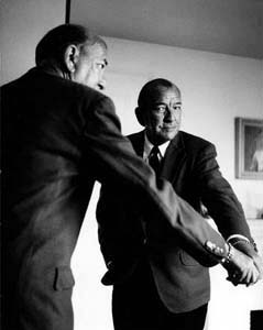 Noel Coward